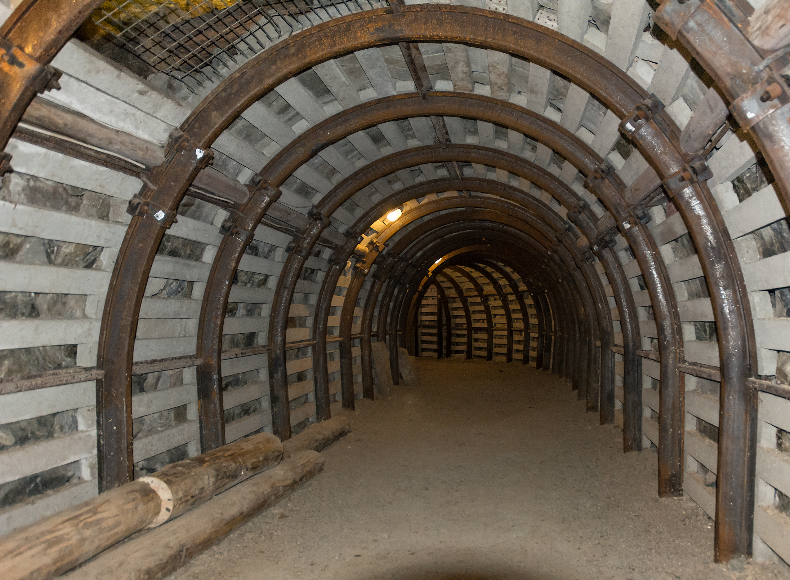 Gold mine in Złoty Stok, tunnel